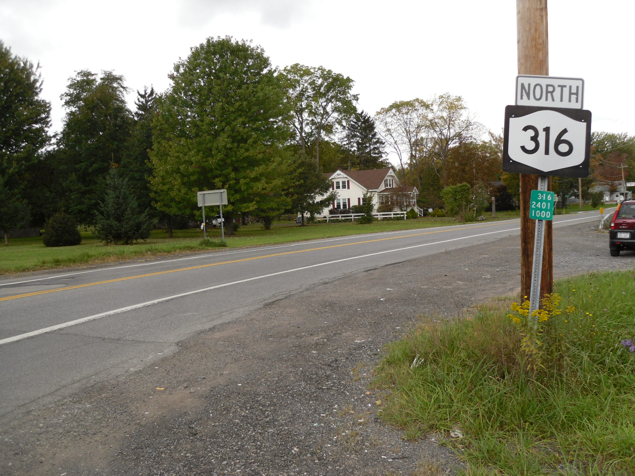 New York State Route 316 heading north from its southern terminus of NY 46 in the town of Oneida.